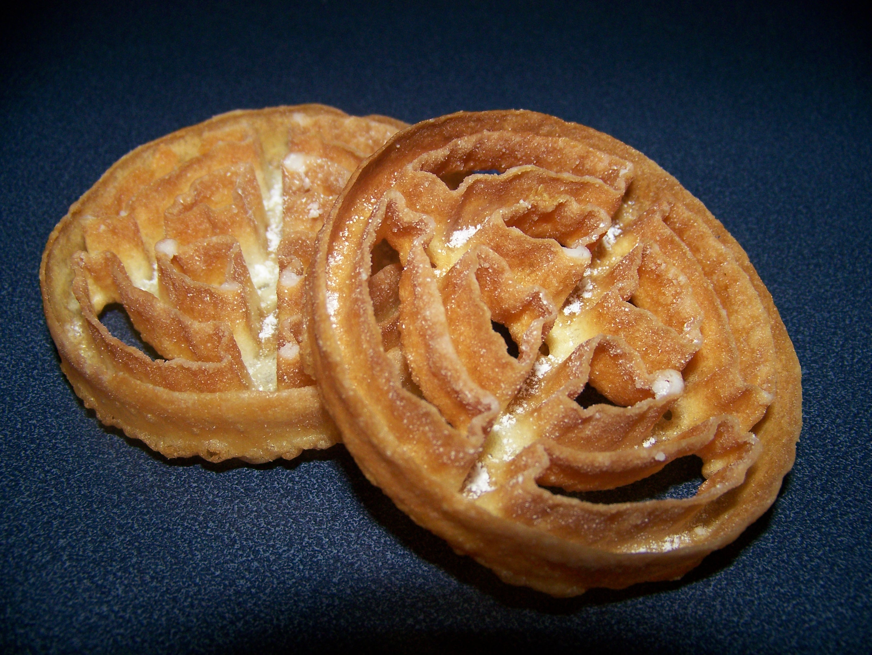 Picture of two Rosette cookies made November 2008 using traditional Scandinavian recipe and iron.